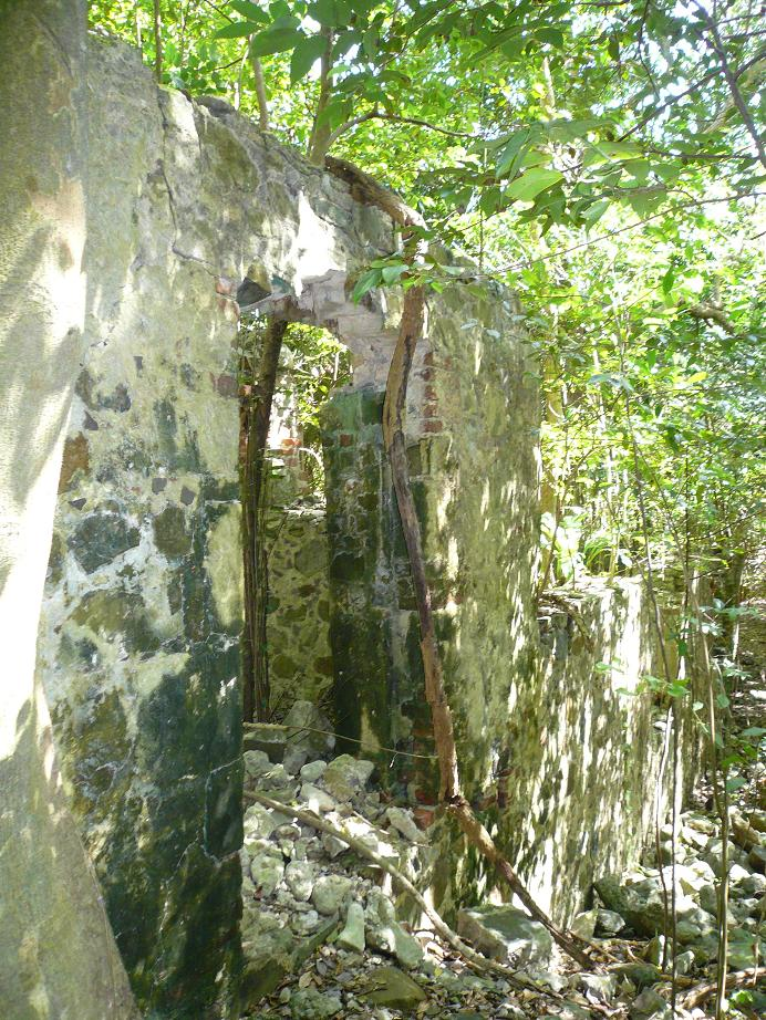 Photograph of the ruins at Cooper Bay, Tortola, British Virgin Islands